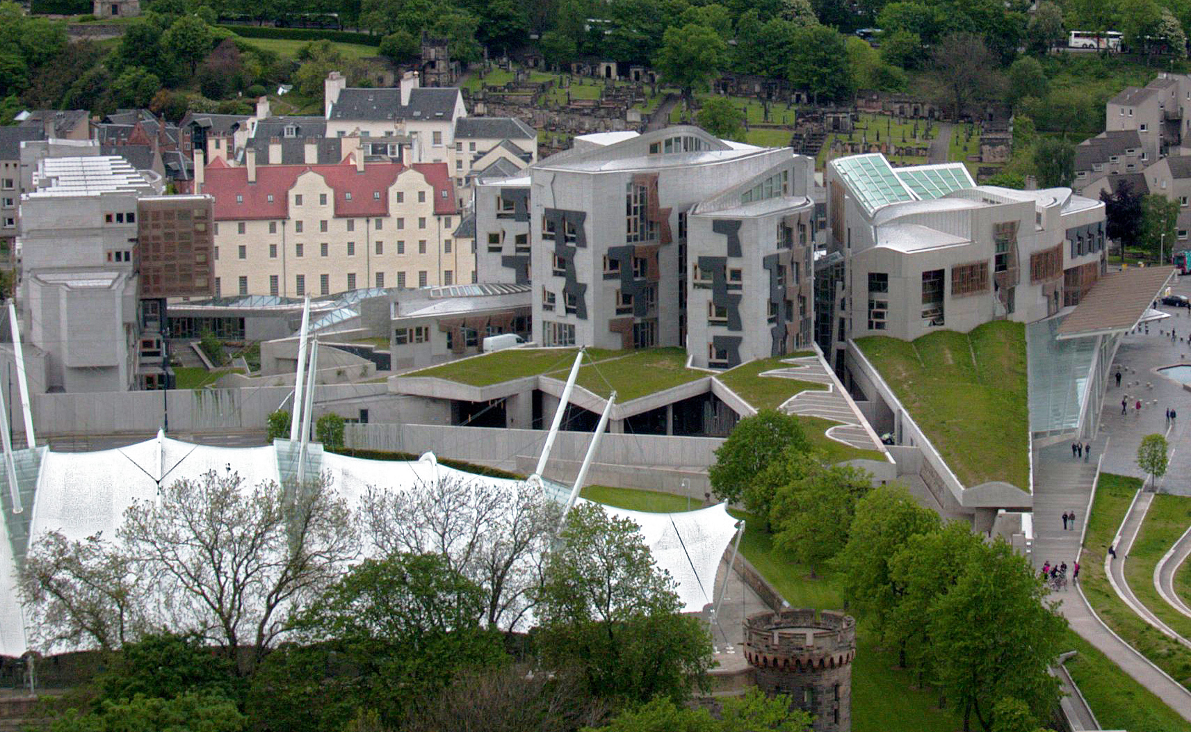 The new Scottish Parliament building, seen from Salisbury Crags